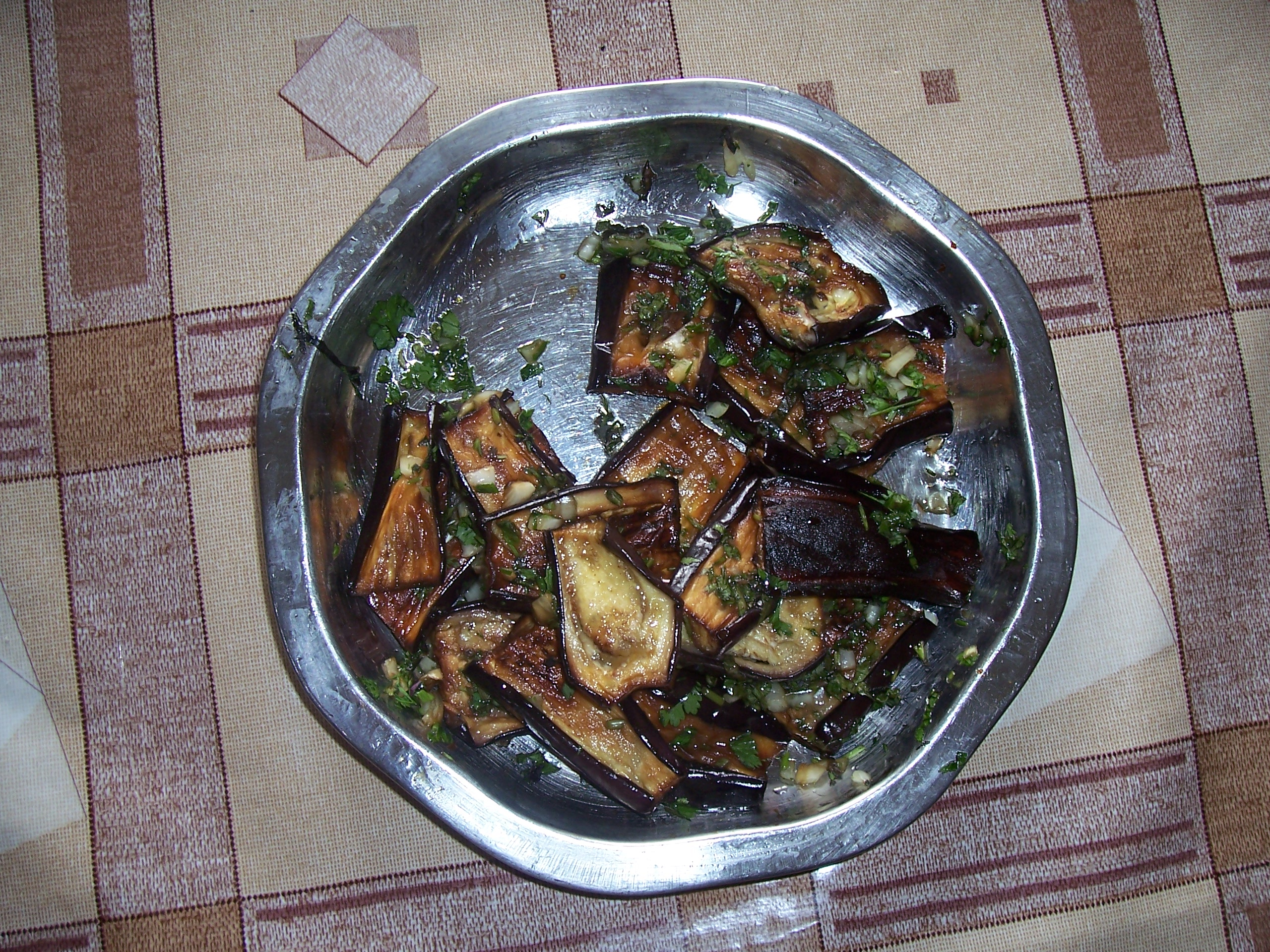 Georgian Badridjani with garlic, onions and herbs.